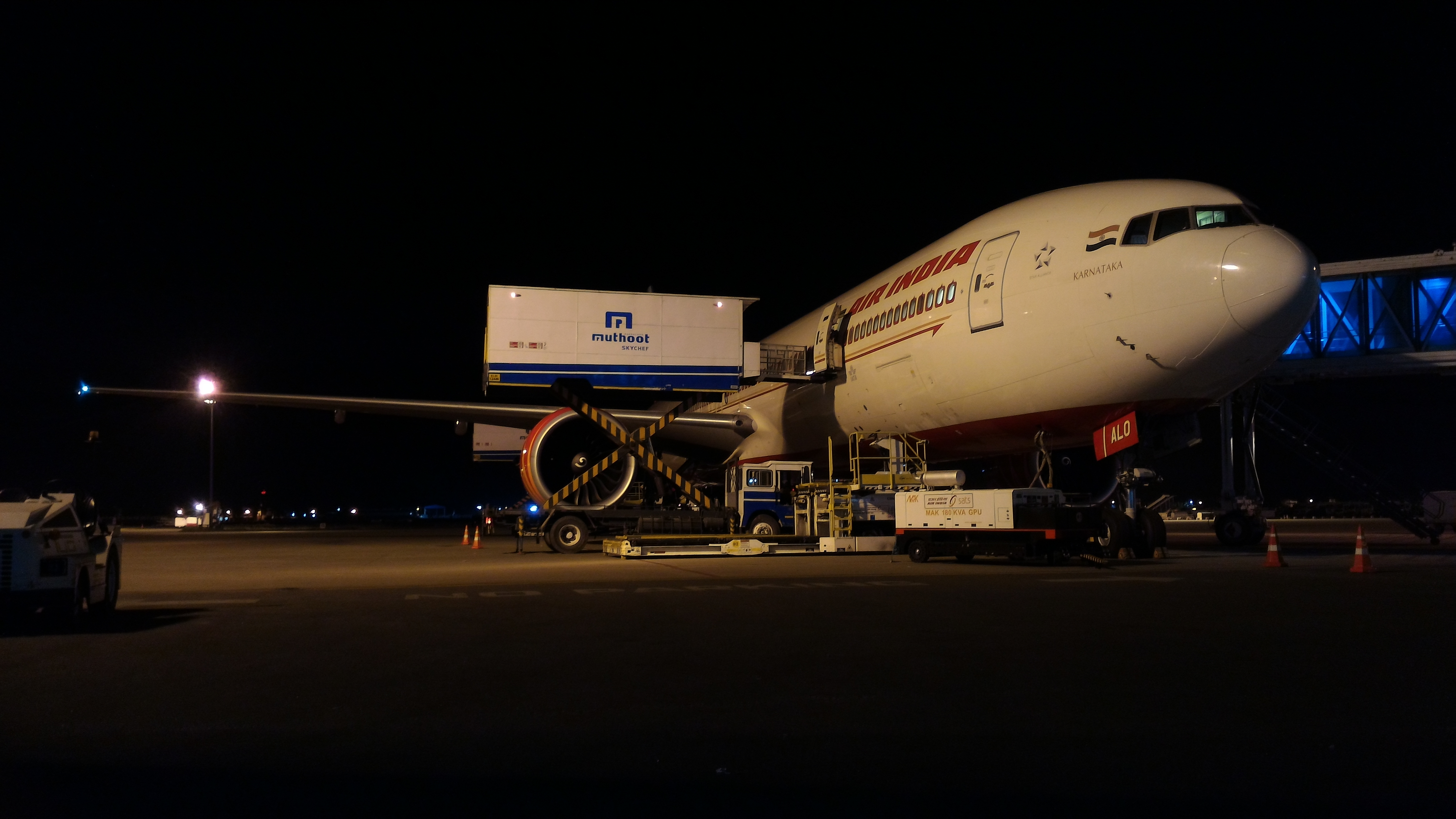 Air India's Boeing 777-300 ER parked at International Terminal of Trivandrum Airport.